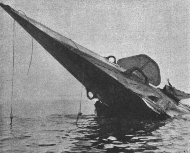 Wreck of the Japanese submarine I-1 off Guadalcanal, in February 1943. During a supply mission on 29 January 1943 I-1 encountered the much smaller 607 ton New Zealand minesweepers, HMNZS Kiwi (T102) and NMNZS Moa (T233). Unable to penetrate the submarine' armour with their deck guns, the minesweepers rammed and wrecked her in shallow water at Kamimbo Bay, Guadalcanal.